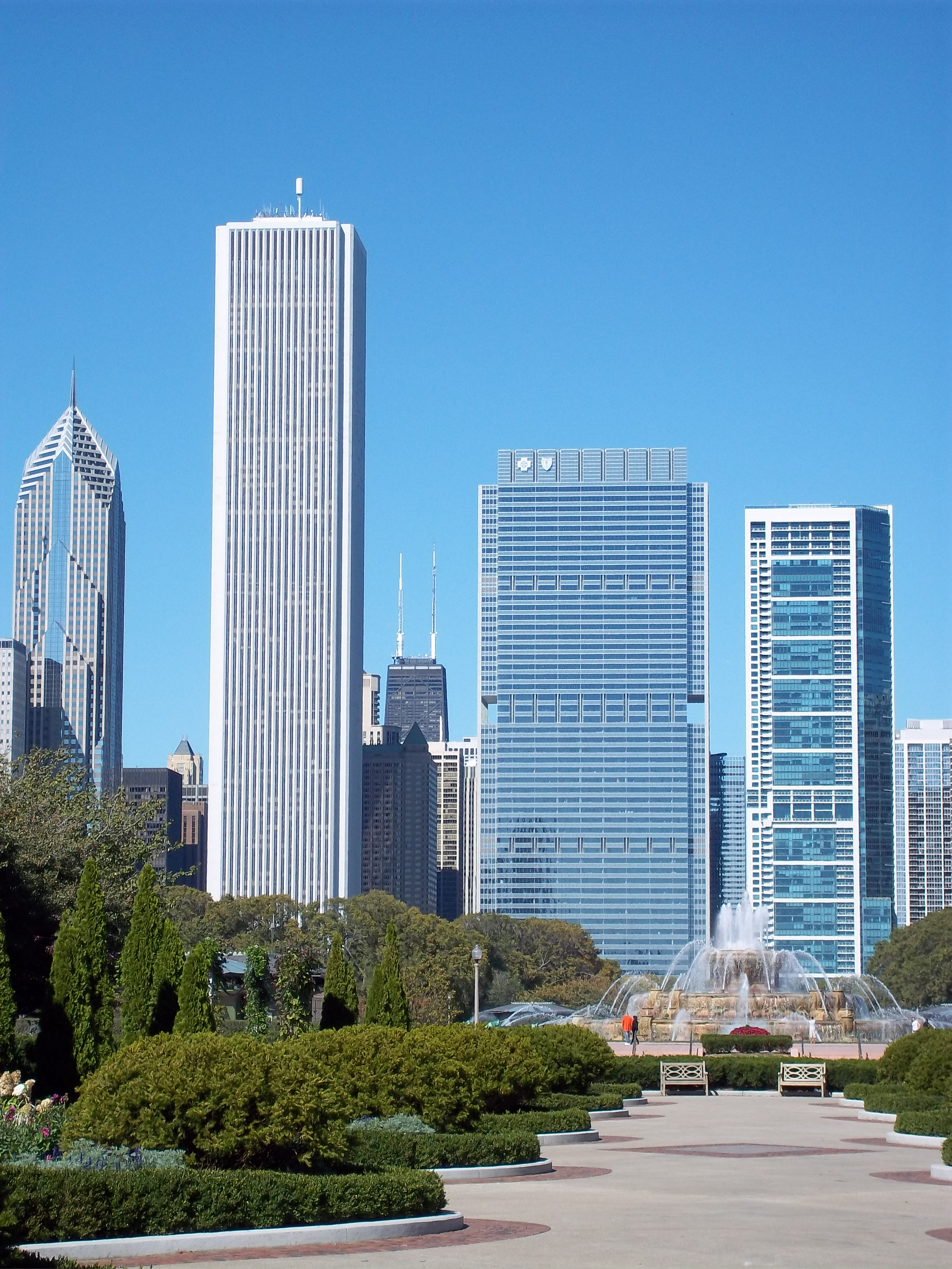 Tiffany Foundation Garden with Buckingham Fountain in background, Grant Park Chicago